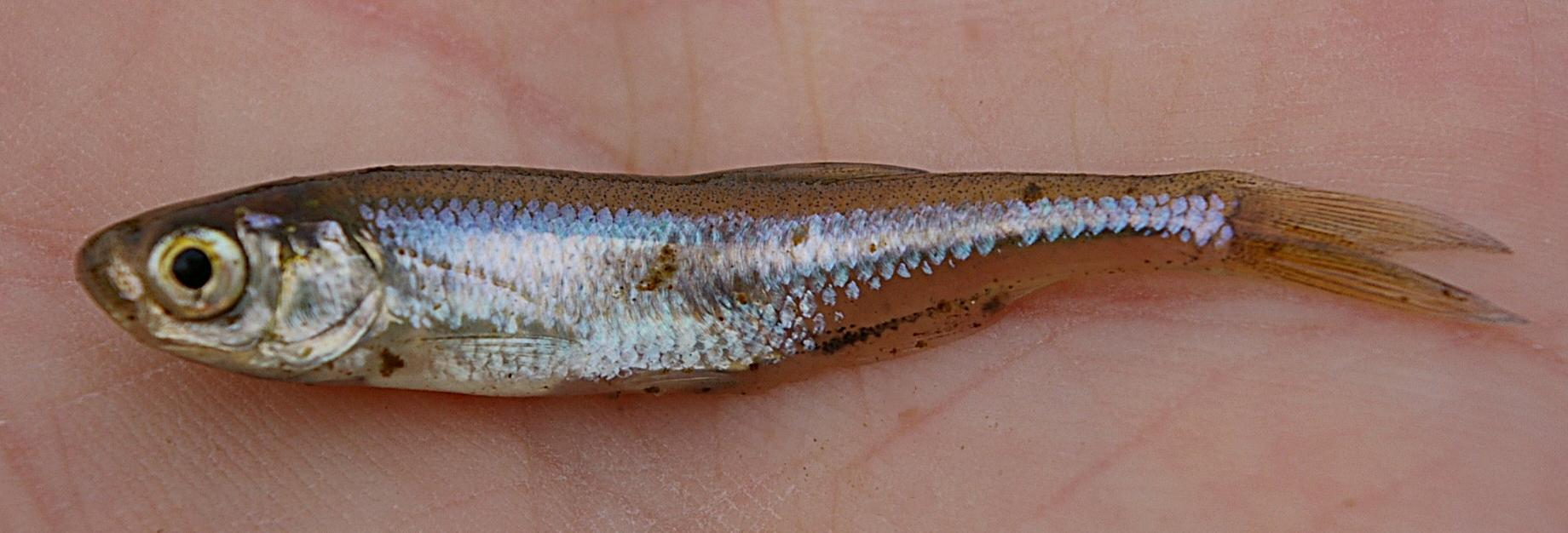 Young specimen of Leucaspius delineatus beyond the water. Typical are the blue-gleaming flanks.